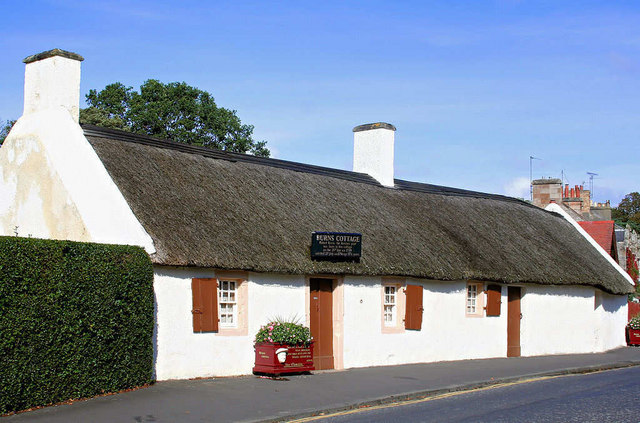 Burns Cottage, Alloway., near to Alloway, South Ayrshire, Great Britain. A view of the birth place of Robert Burns.